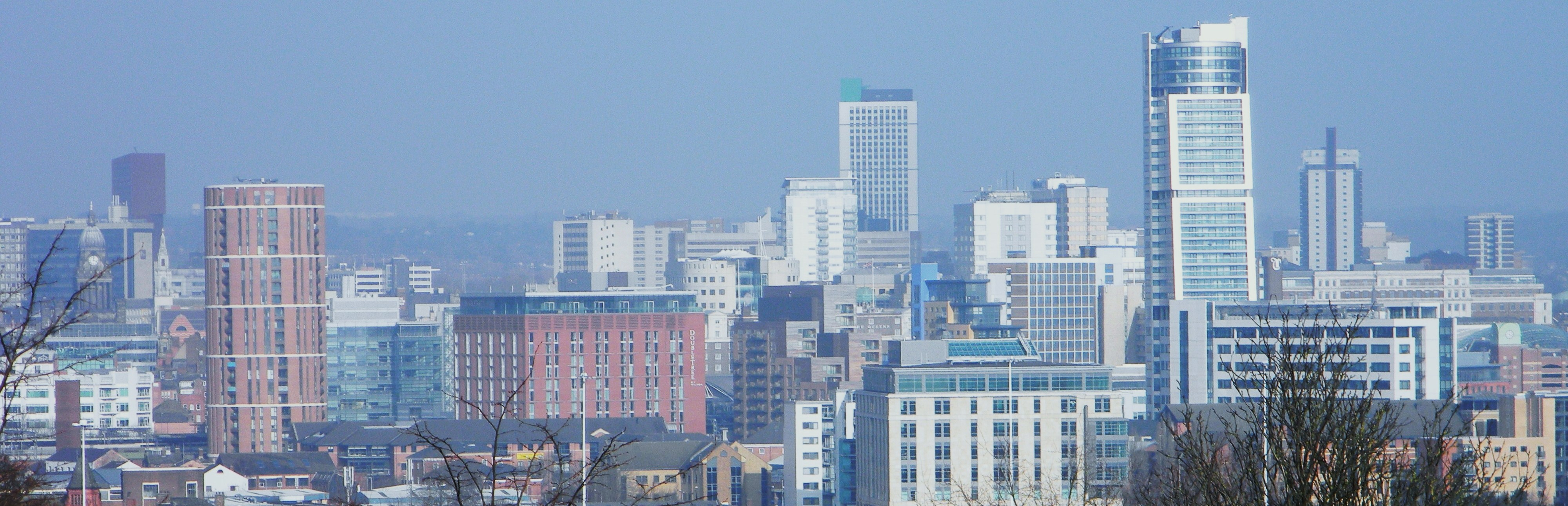 Leeds city skyline viewed from Beeston hill in 2013